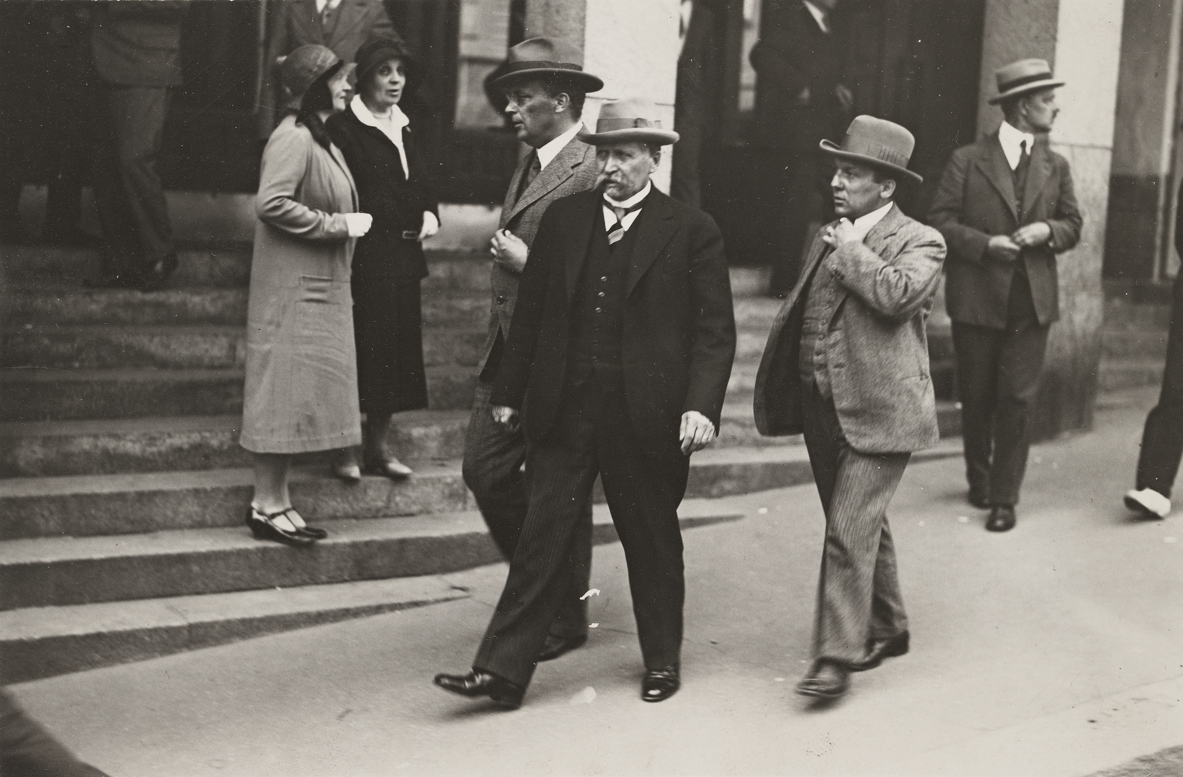 Photograph of Kyösti Kallio’s Cabinet ministers, with Kallio and Arvo Linturi in front.